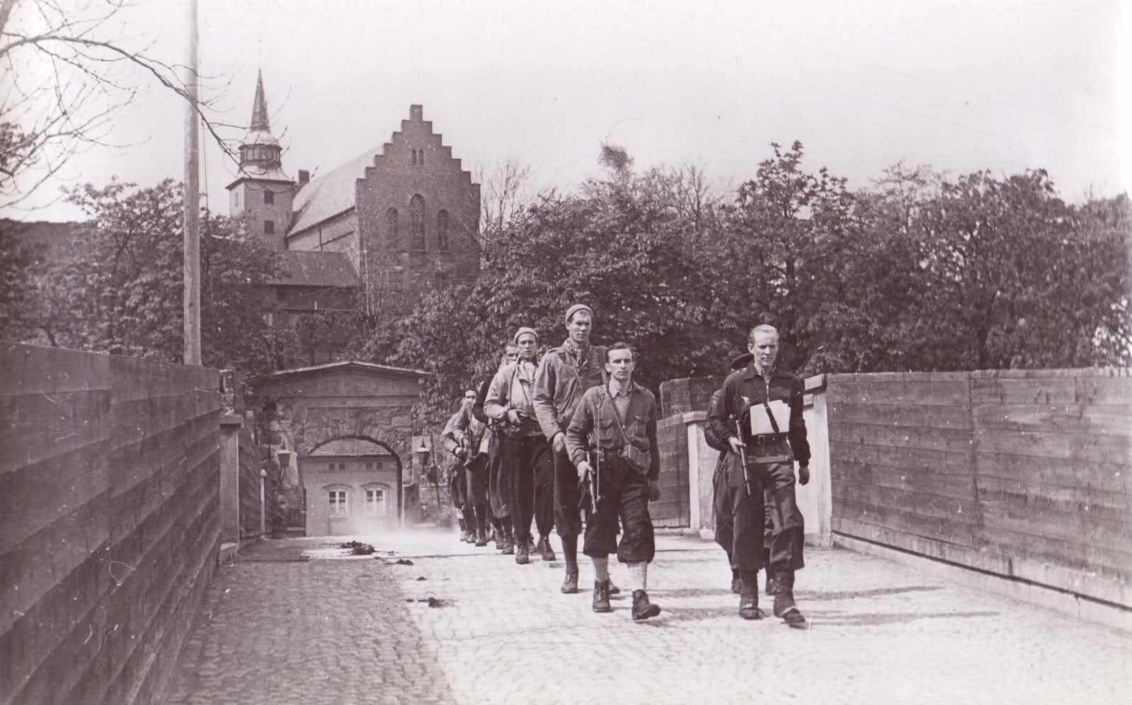 Milorg soldiers after the handover of Akershus Fortress to Terje Rollem and the rest of Norway